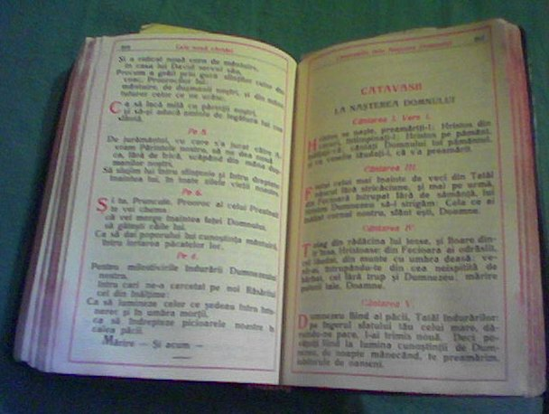 Horologe / Horologion (Byzantine Book of Hours)